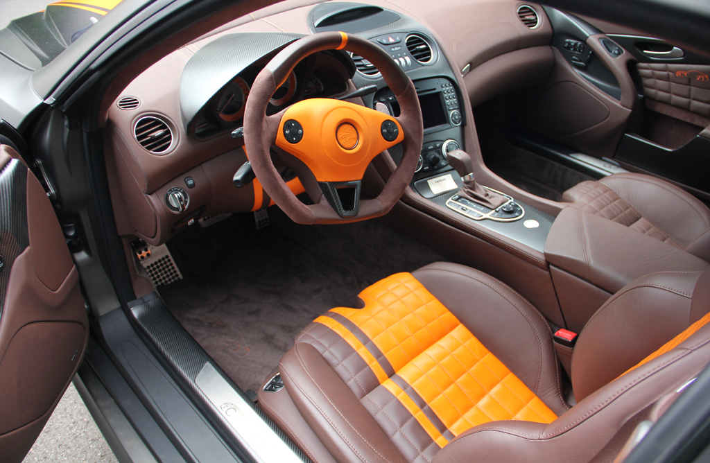 The interior of the Carlsson C25